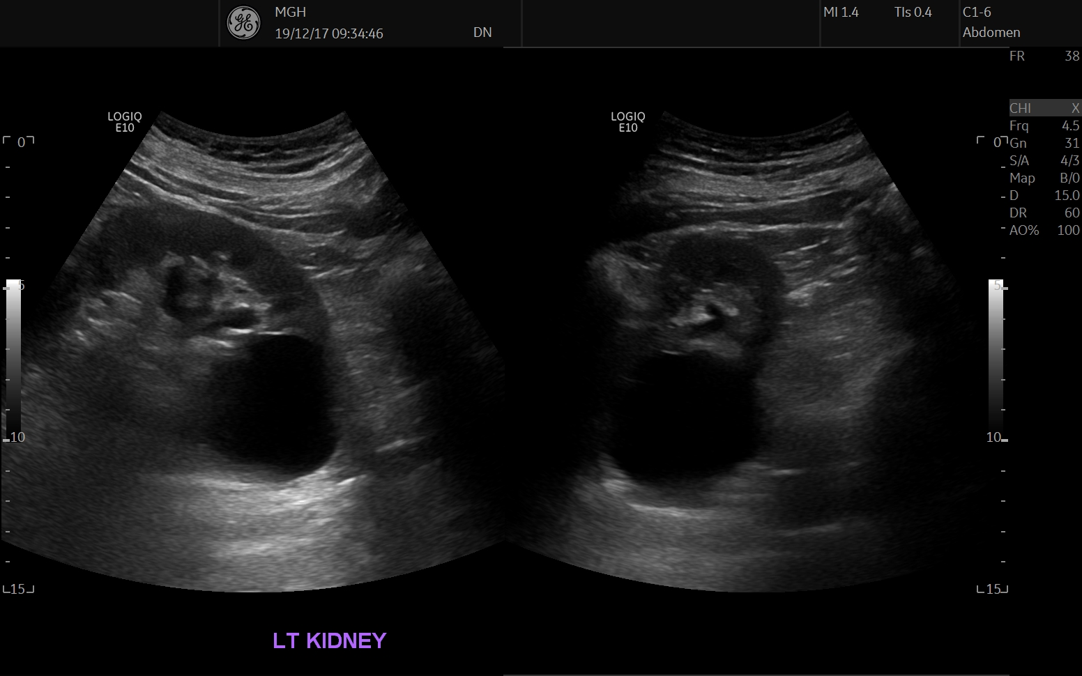 Renal cyst as seen on Abdominal ultrasound. (GE Logiq E10)